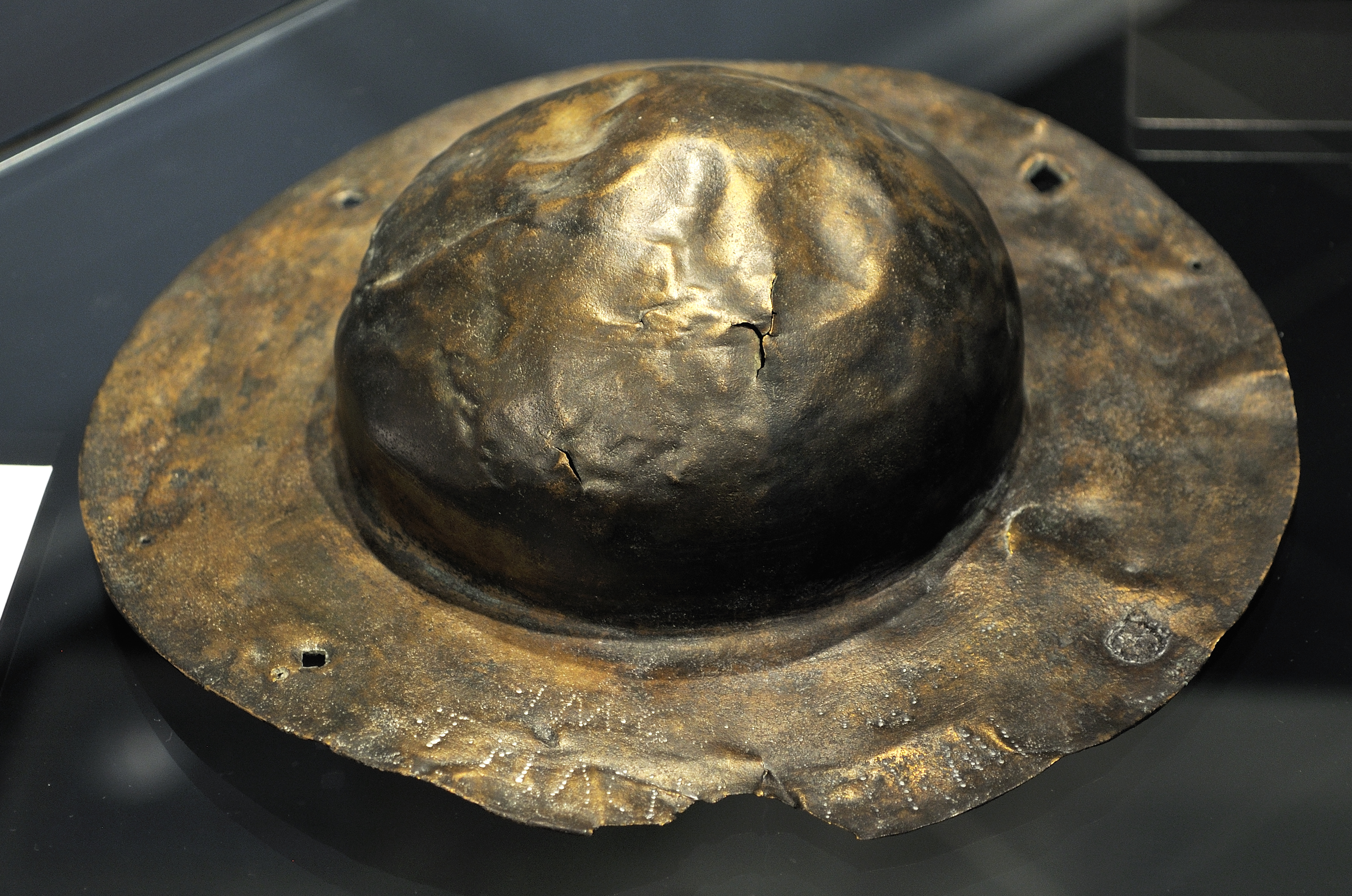 Picture taken in the Roman history museum in Osterburken.